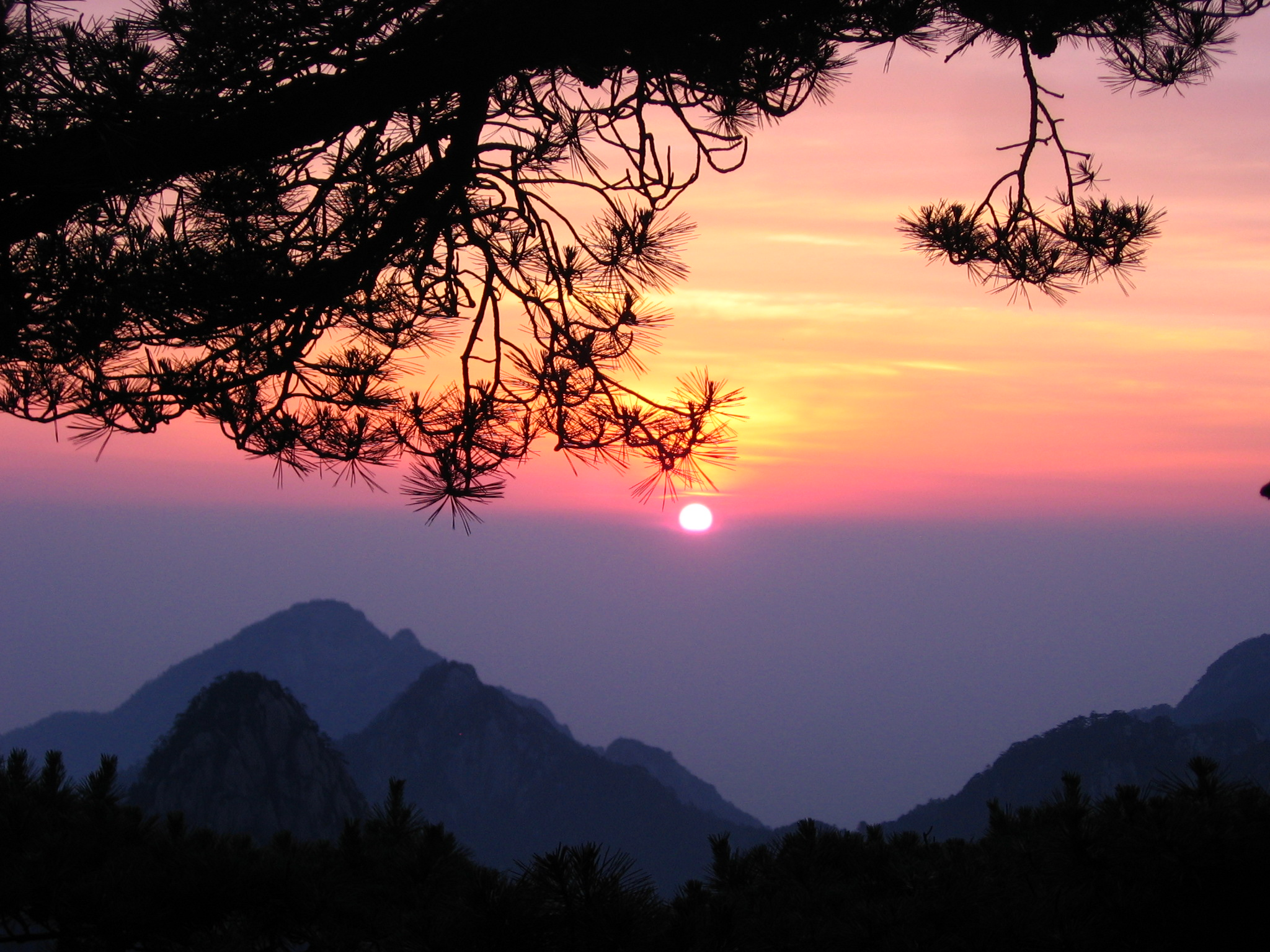 Sunrise on Mount Huang, as seen from Beihai